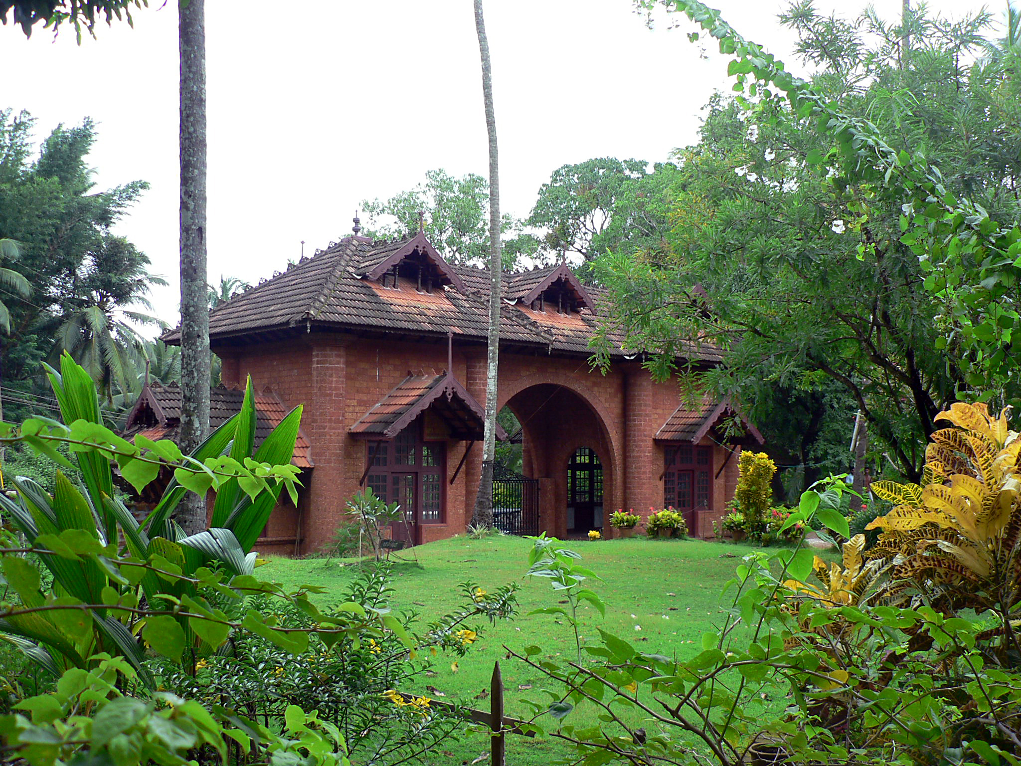 The gate of Thunjan Parambu from behind.